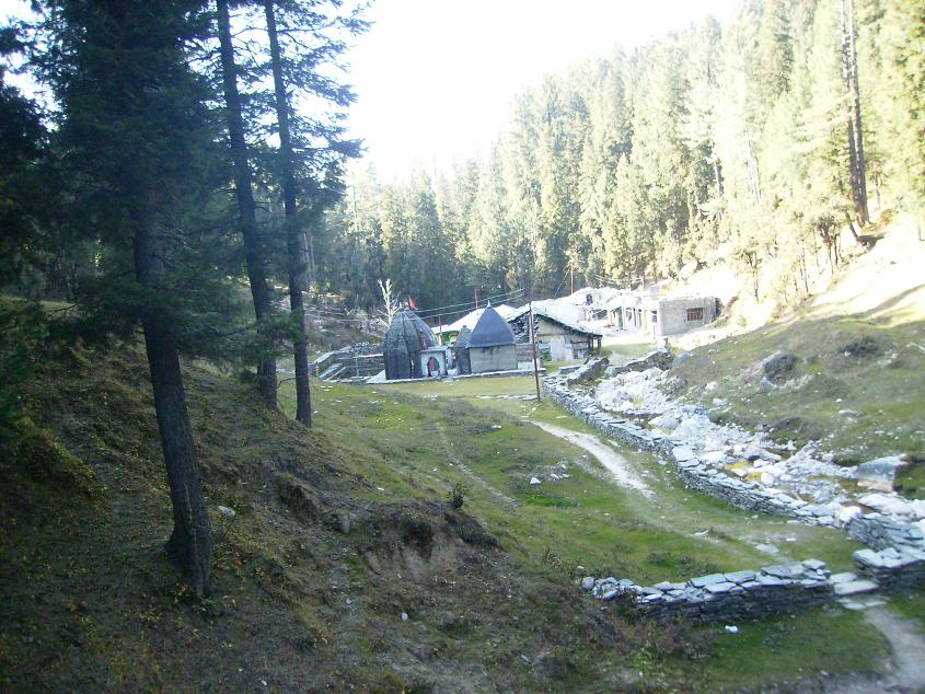 Giri Ganga Temple, Khara Pathar, Himachal Pradesh